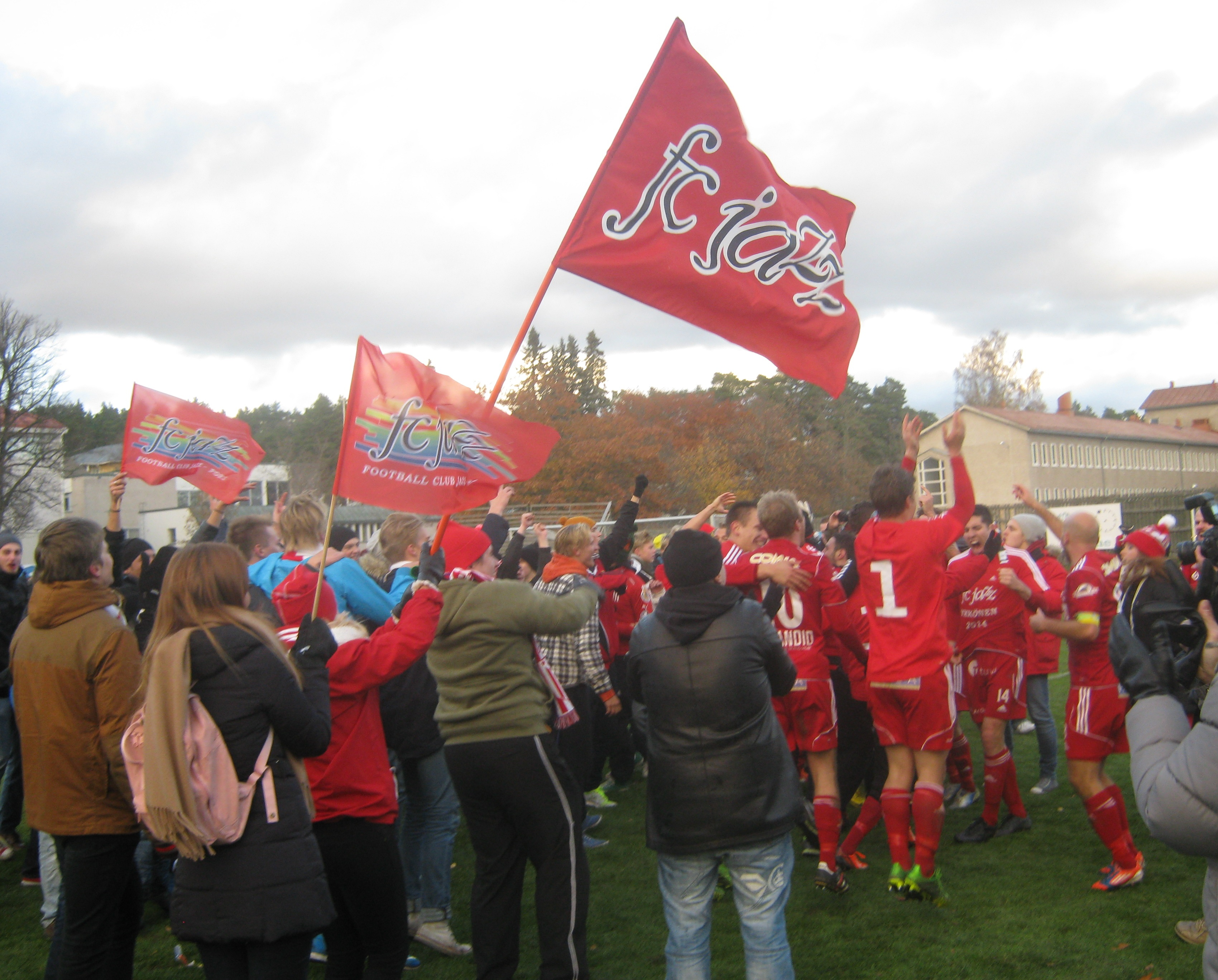 FC Jazz celebrate their promotion to Finnish second tier Ykkönen at Ekenäs.